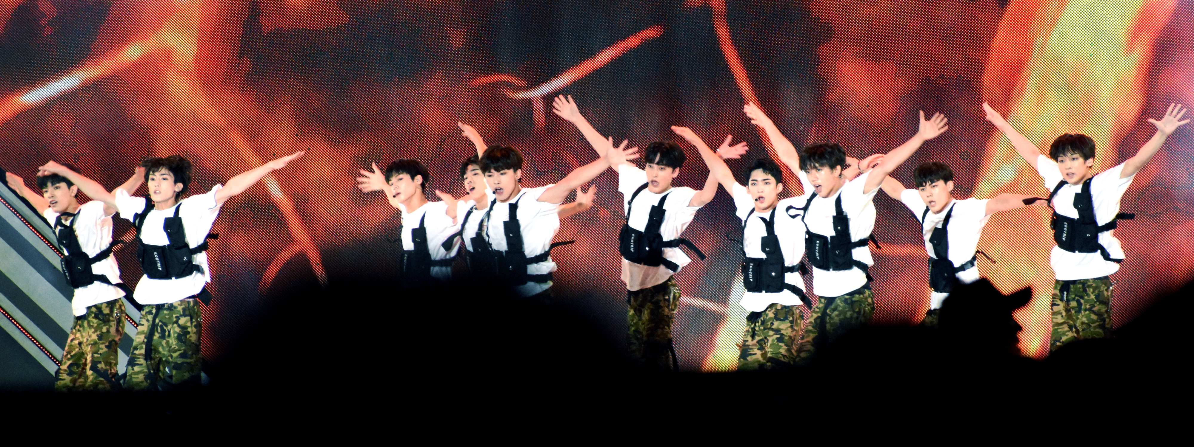 TRCNG at the 2018 Incheon Airport Sky Festival on September 2, 2018.